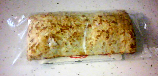 A picture of a hot pocket from my freezer.